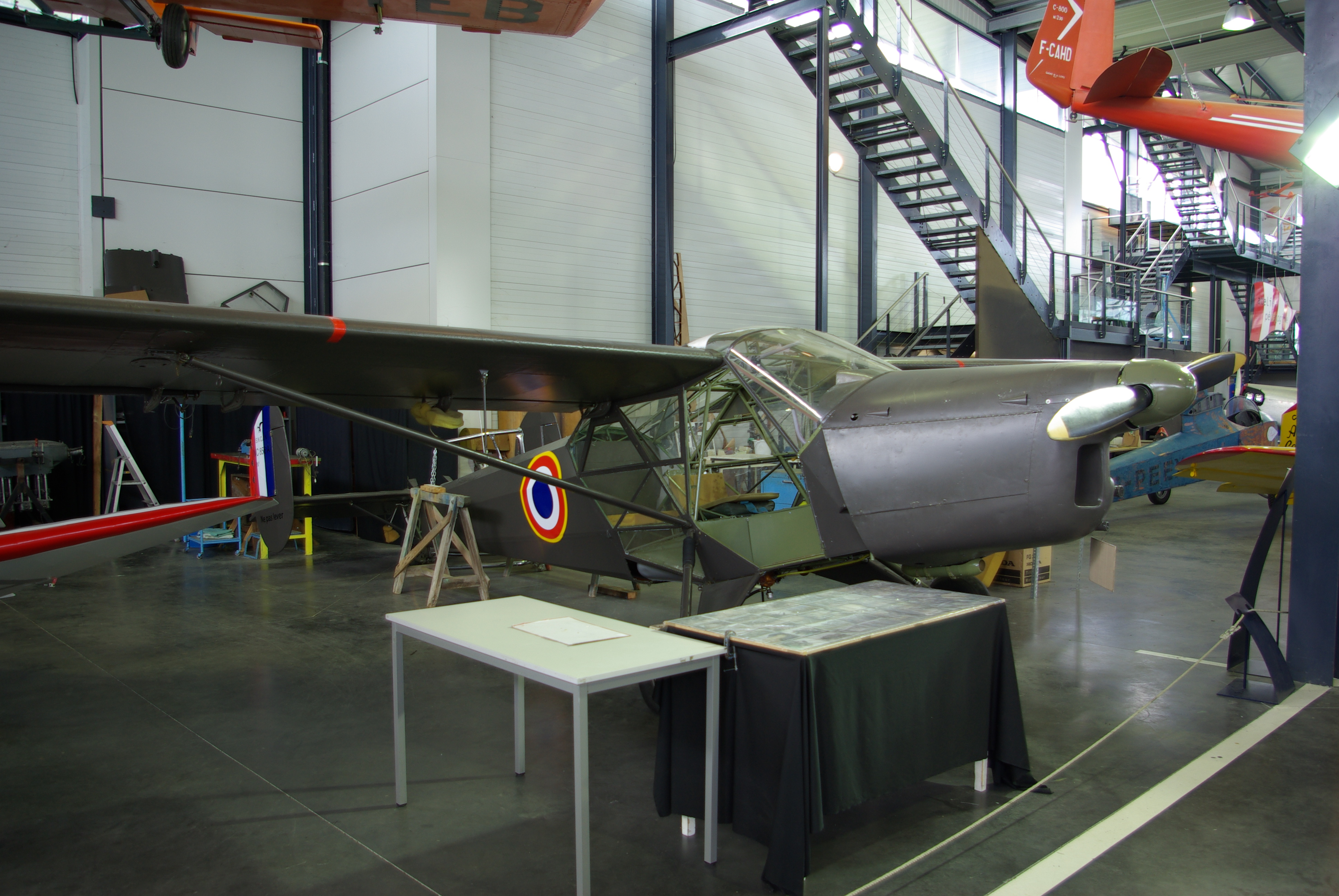 The SNCAN NC.856 Norvigie is an observation aircraft designed in 1954. This one is being restored at the musée régional de l'air of Angers-Marcé.